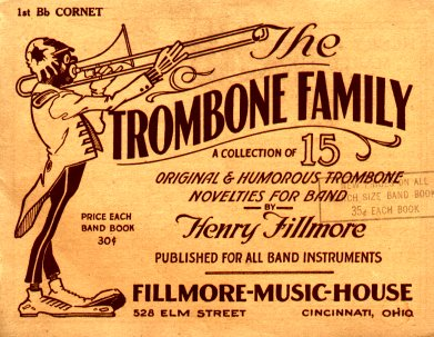 Trombone Family by Henry Filmore, no date or copyright notice